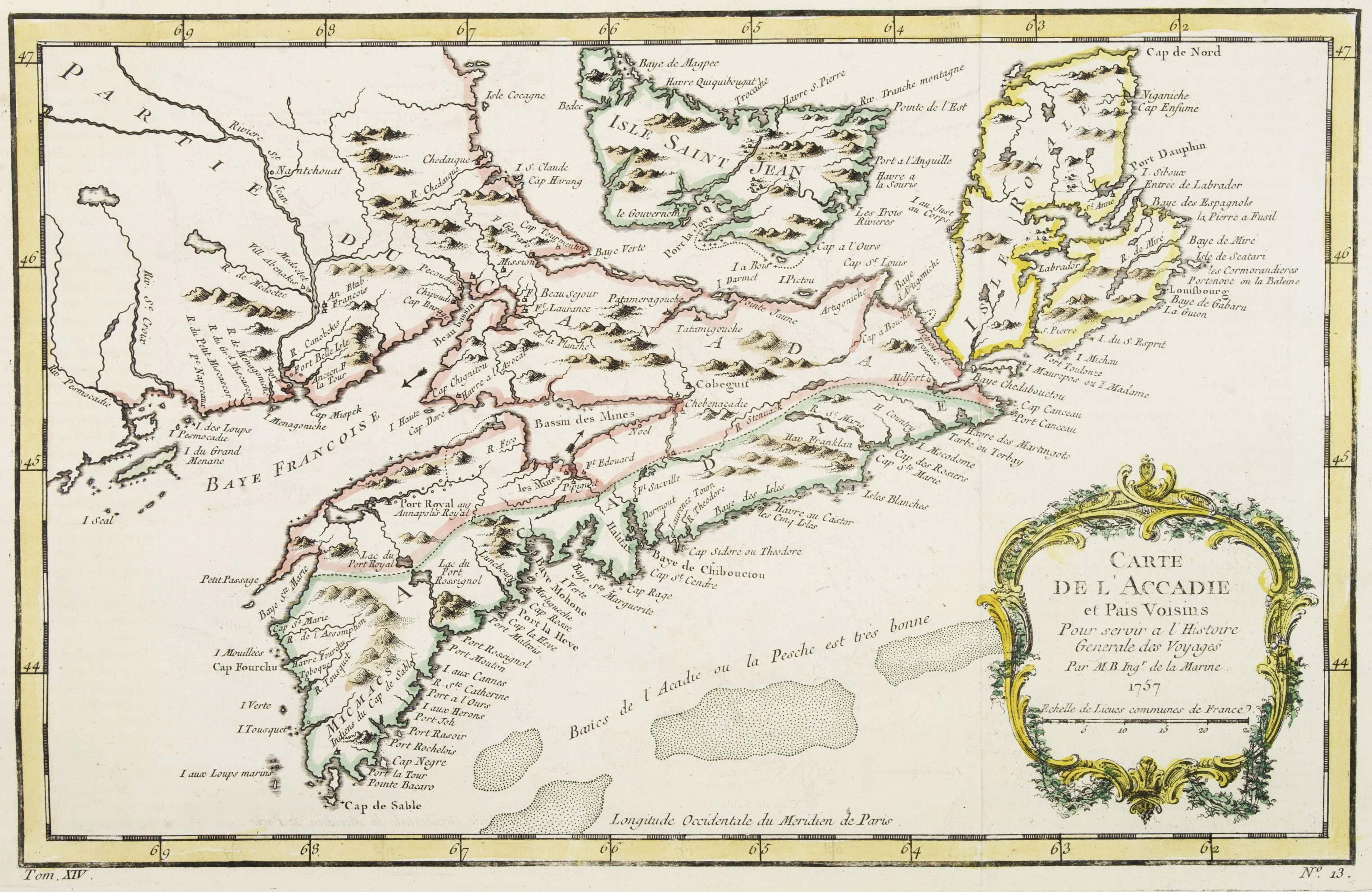 French map of Acadia (now Nova Scotia)